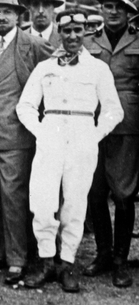 The racecar driver Tazio Nuvolari.